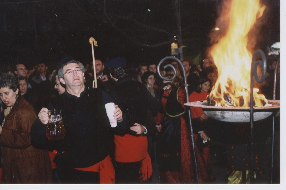 User:Makedonas is the creator of this work.